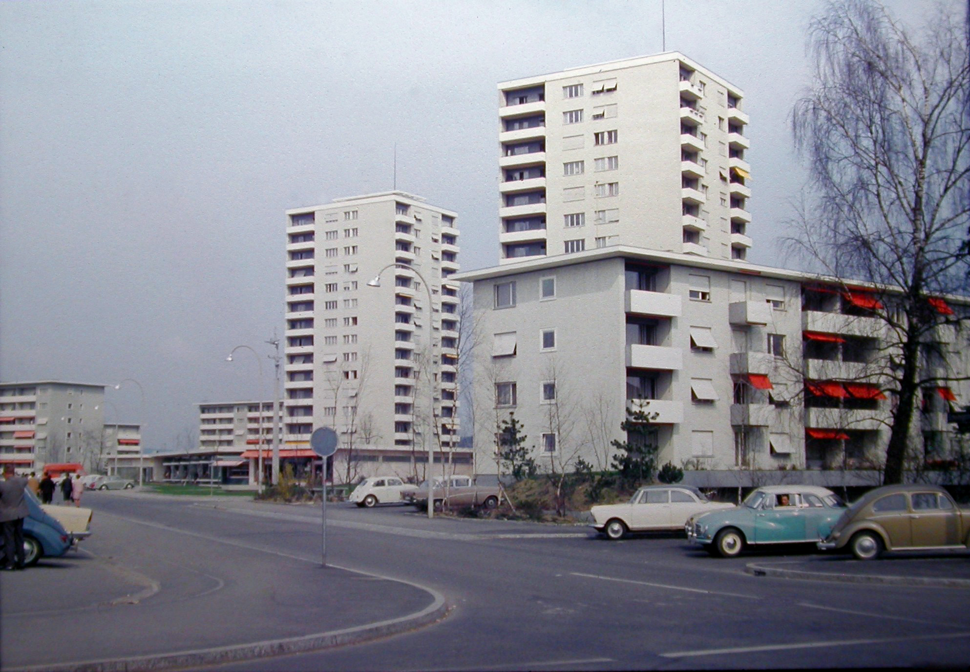 Winterthur 1964 Easter